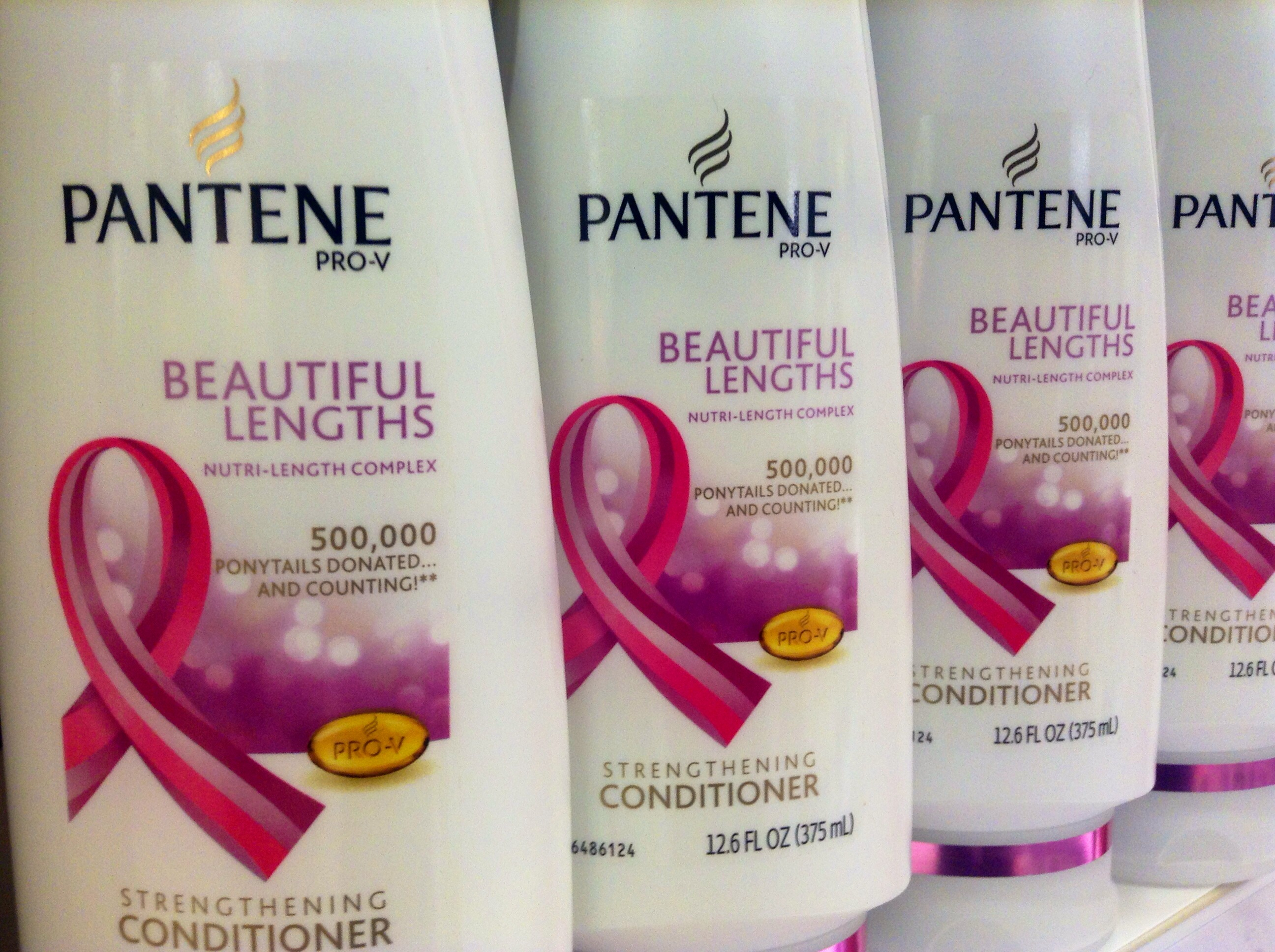 Pantene Pro-V Beautiful Lengths Strengthening Conditioner, 9/2014 by Mike Mozart of TheToyChannel and JeepersMedia on YouTube.